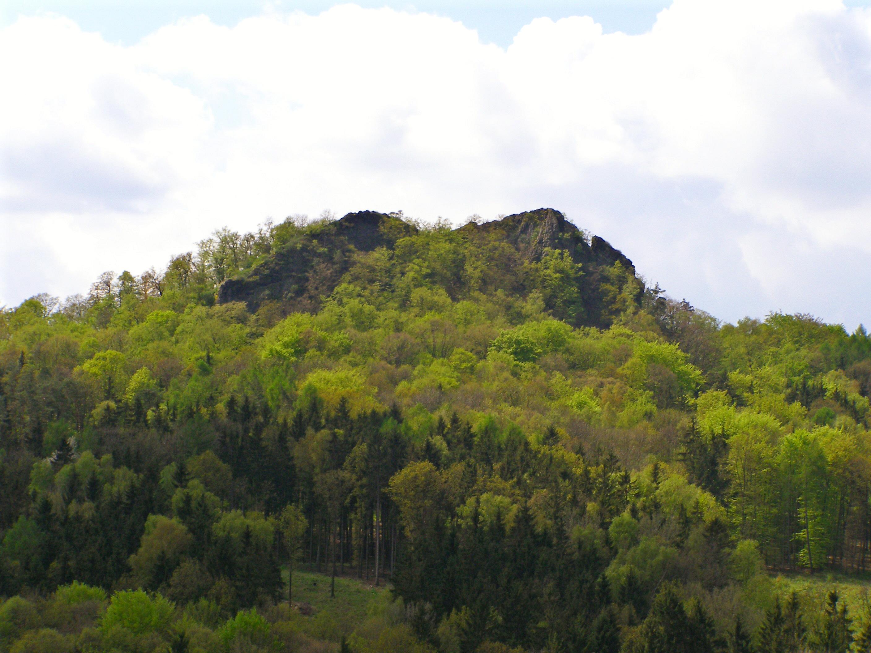 Trojhora